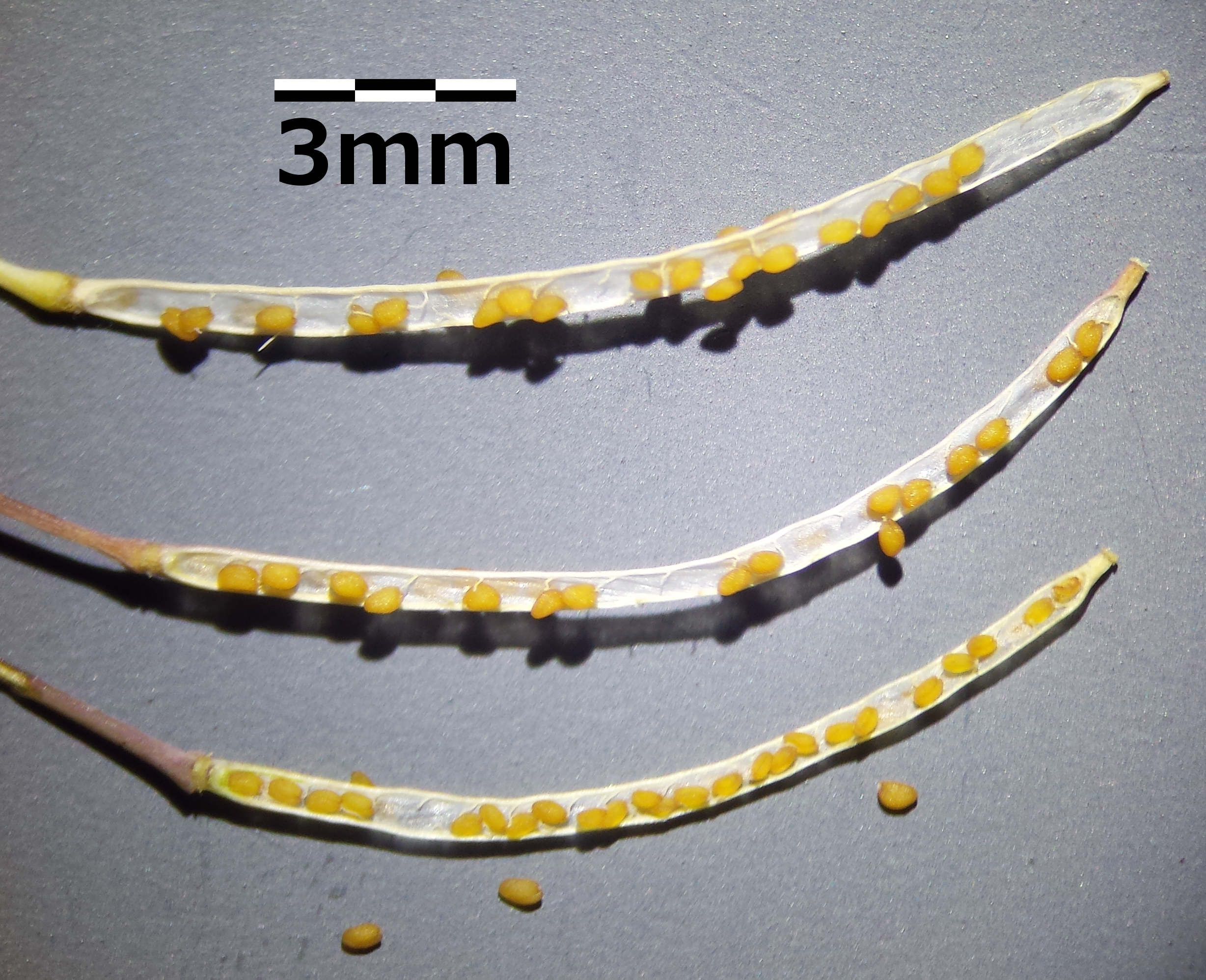 Siliques opened Taxon: Arabidopsis thaliana (sensu Fischer et al. EfÖLS 2008 ISBN 978-3-85474-187-9 incl. addendum in Neilreichia 6) Location: Floridsdorf railway station, Vienna-Floridsdorf - ca. 160 m a.s.l. Habitat: ballast